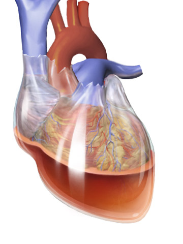 Cardiac Tamponade. This image was donated by Blausen Medical. Please visit our website to see more medical illustrations and animations.